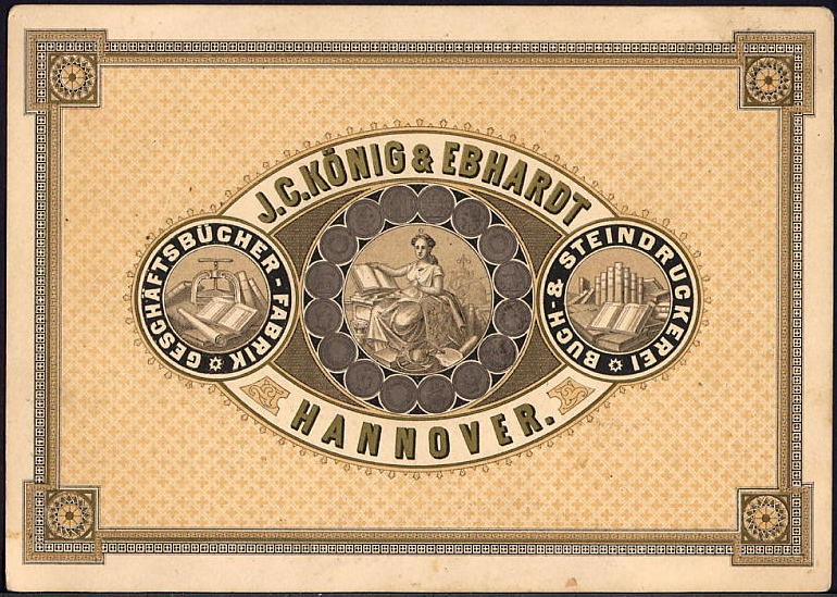 Trade card J. C. KONIG & EBHARDT Hanover Germany, about 1880. German written side